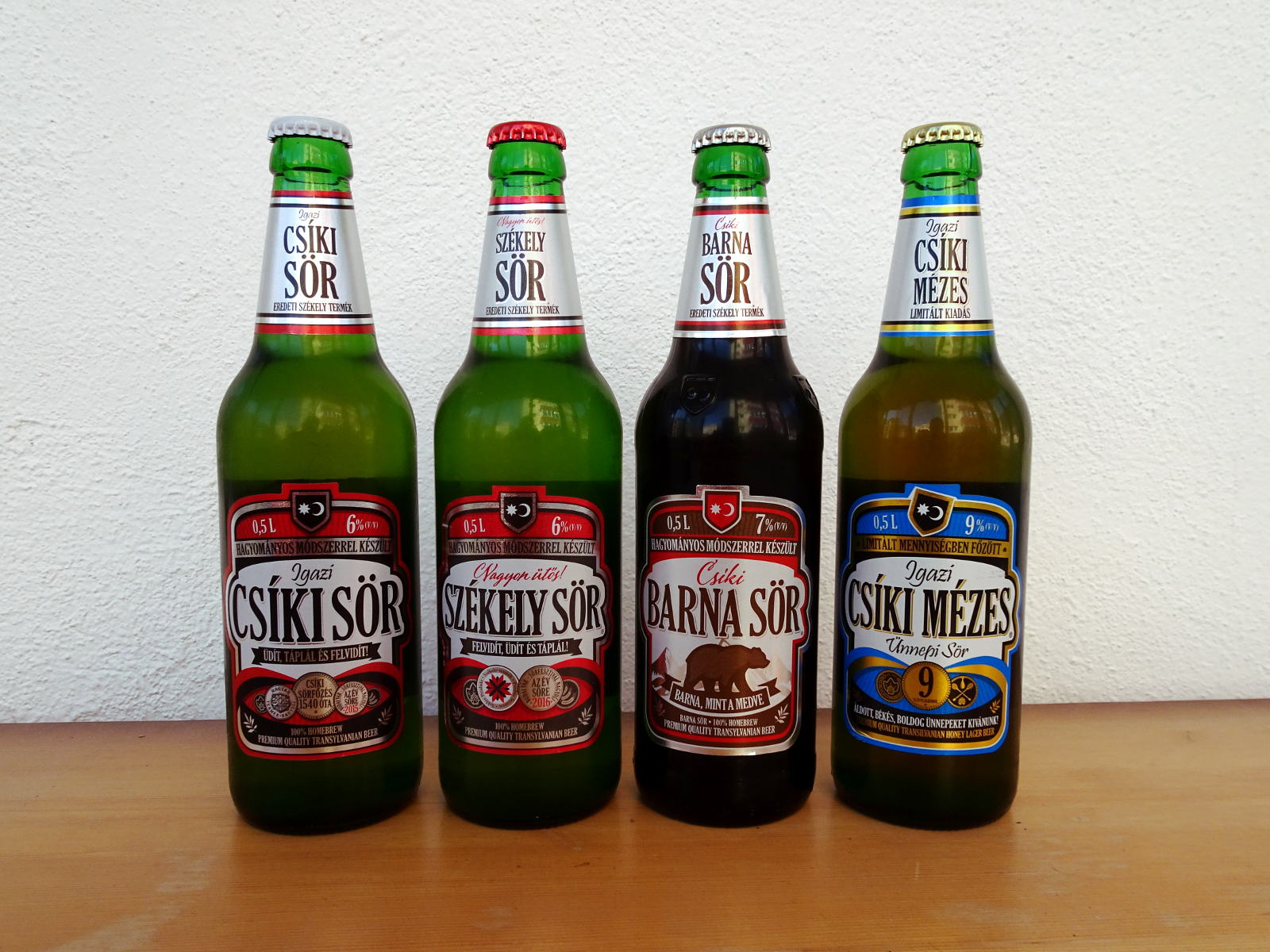 Assortment of beers from Transylvania. Manufacturing of these has ceased since.